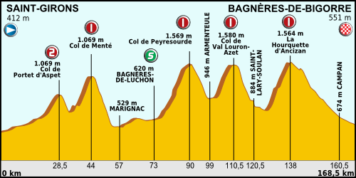 Tour de France 2013 - Profile Stage No. 9